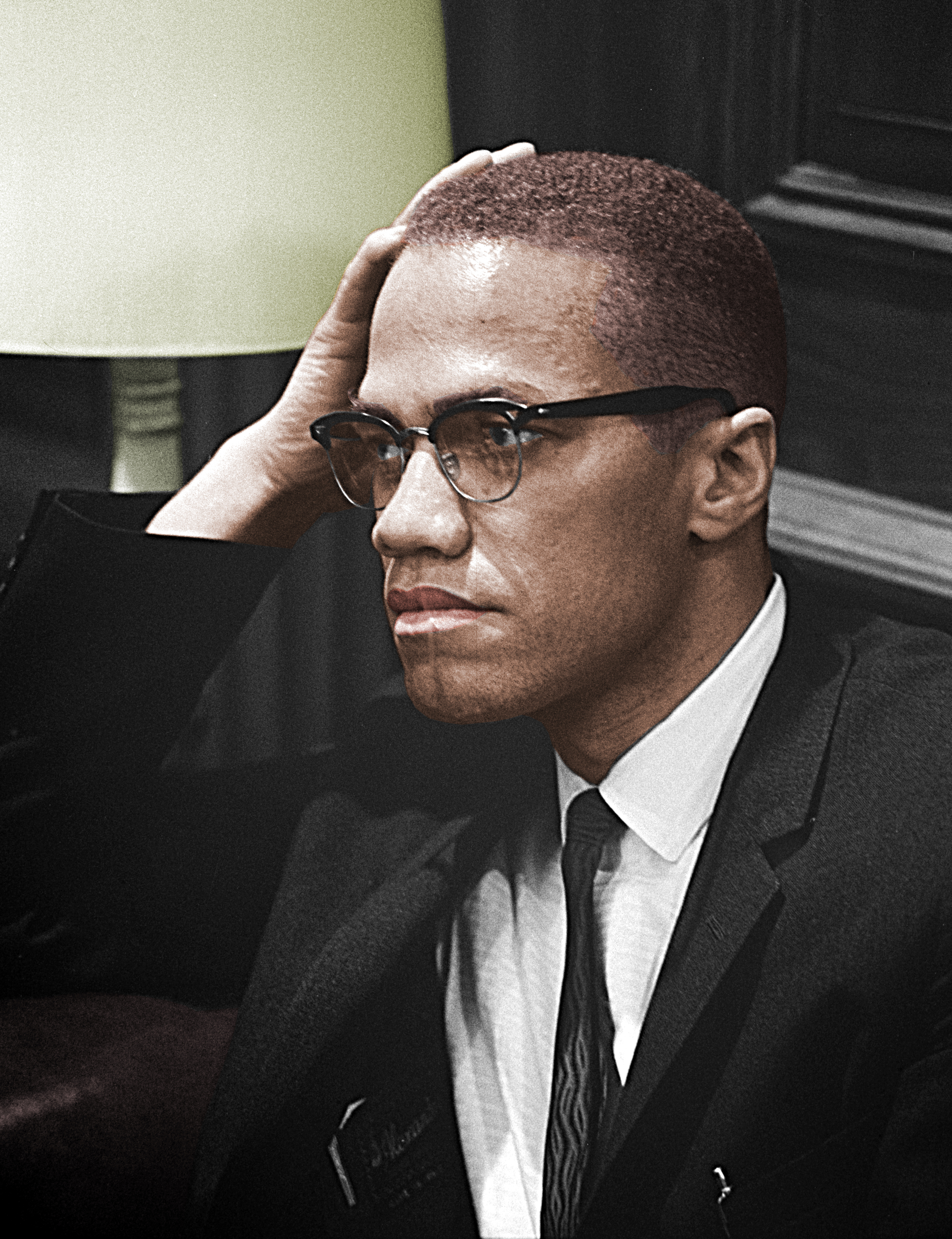 Malcolm X colorized photo.